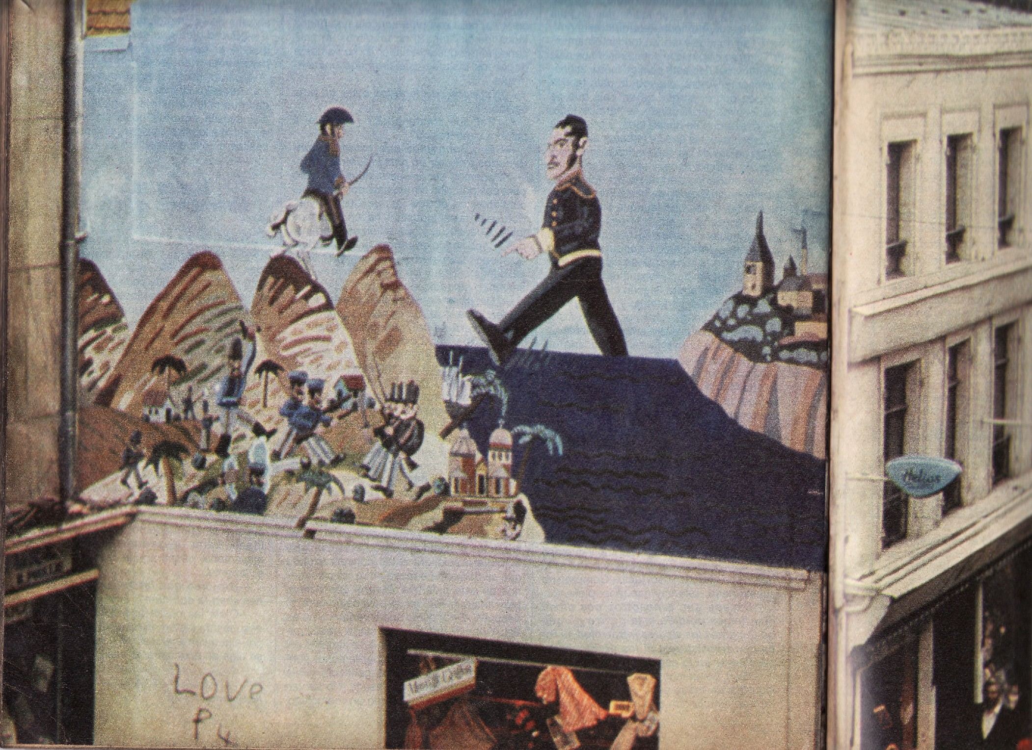 Wall painting by Antonio Seguí, about José de San Martín, at Boulogne-sur-Mer, France.